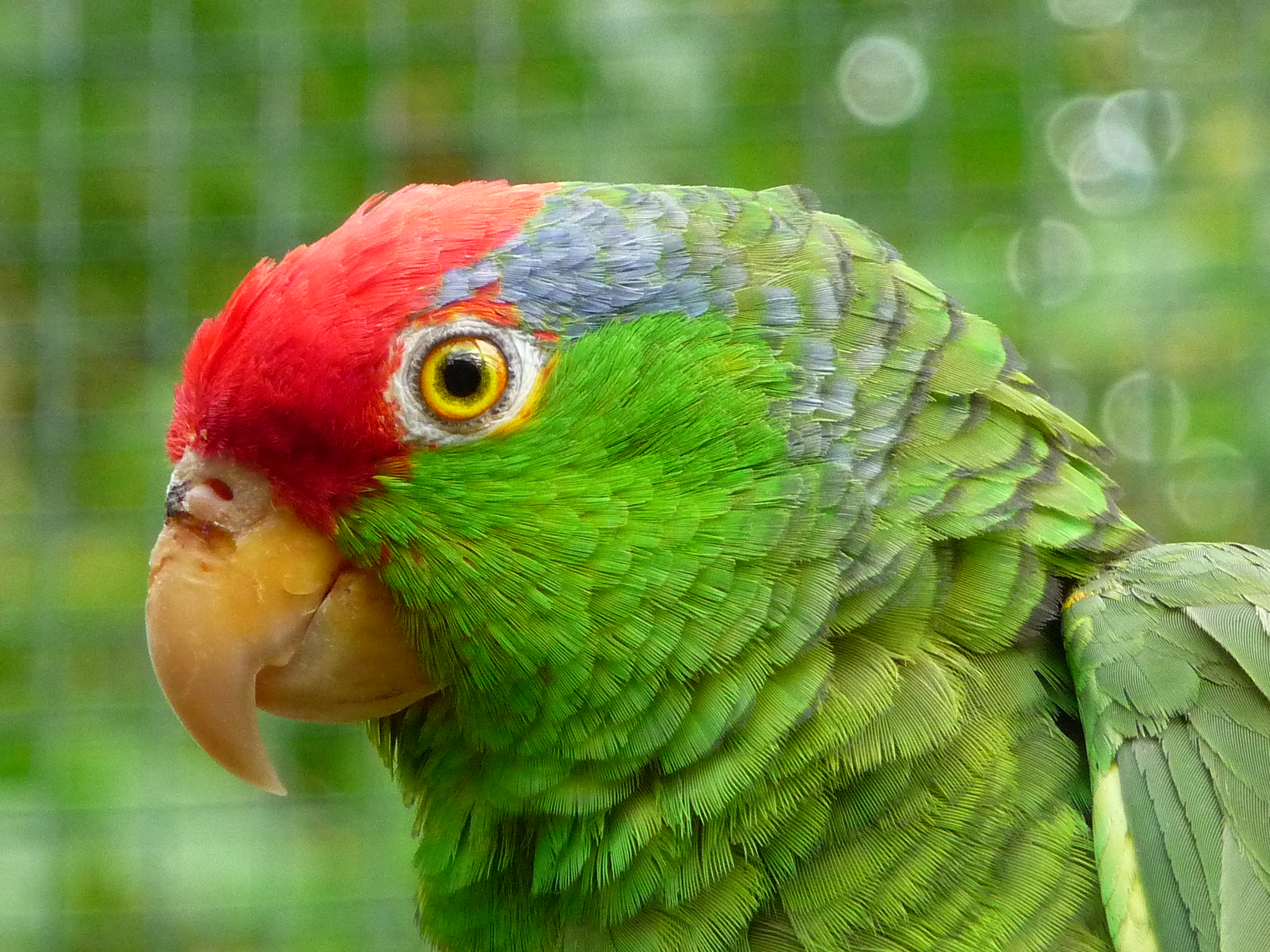 Red-crowned Amazon (also known as the Green-cheeked Amazon).